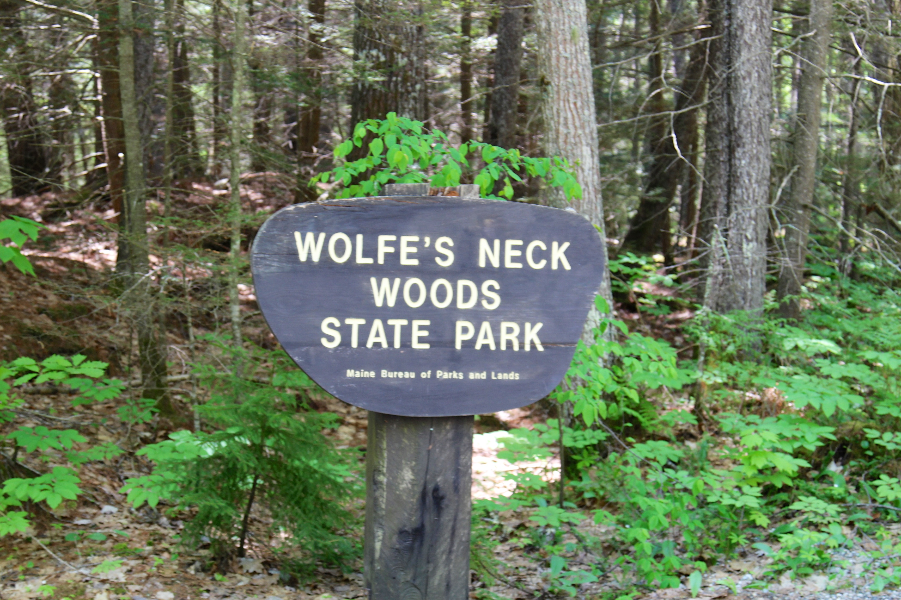 Critics said this is one of nice small state park in Maine, and we are going to check this out! Wolfe's Neck Woods State Park @ Freeport, Maine